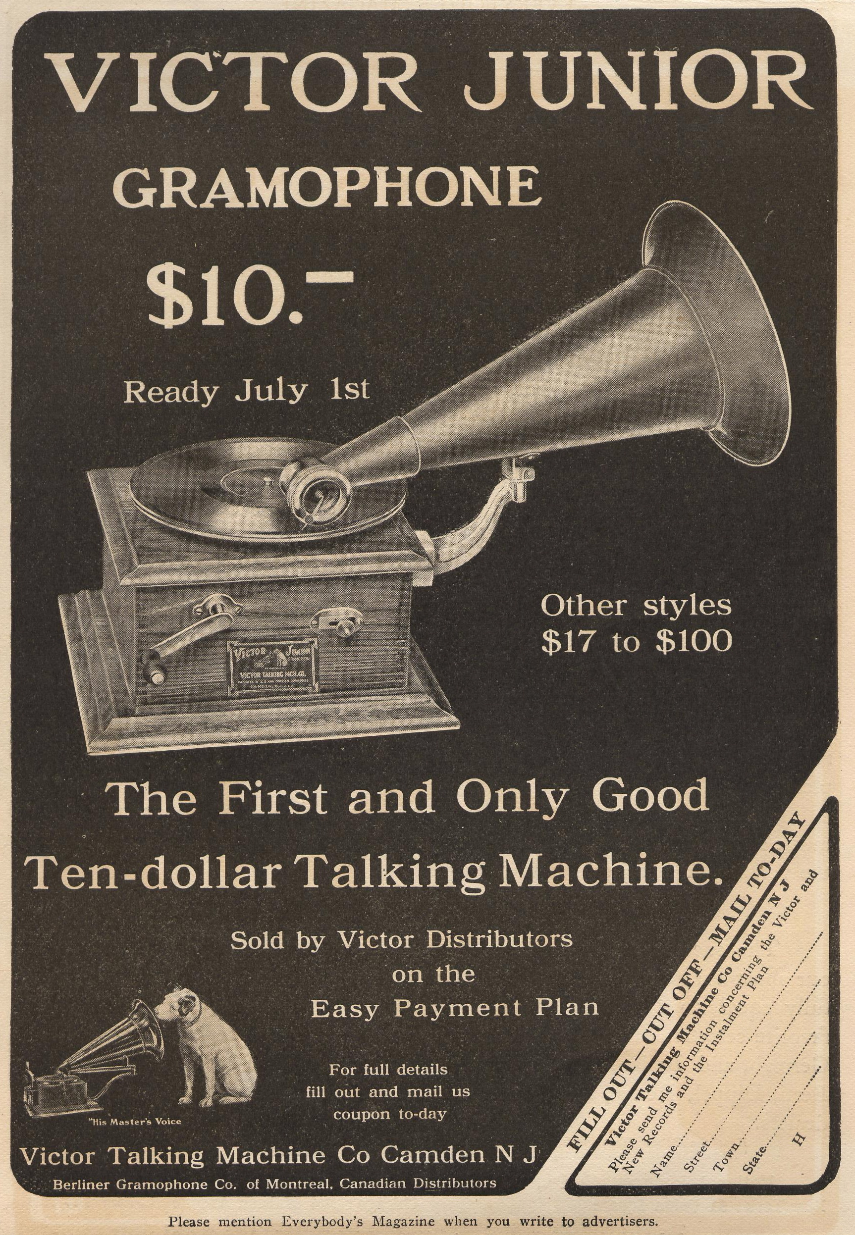 Victor Records Gramophone advertisement, 1909